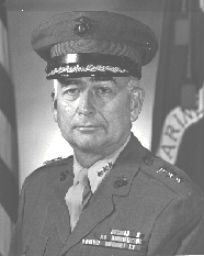 Official military photograph of Lt General Wallace H. Robinson from the USMC list of biographies of USMC generals.